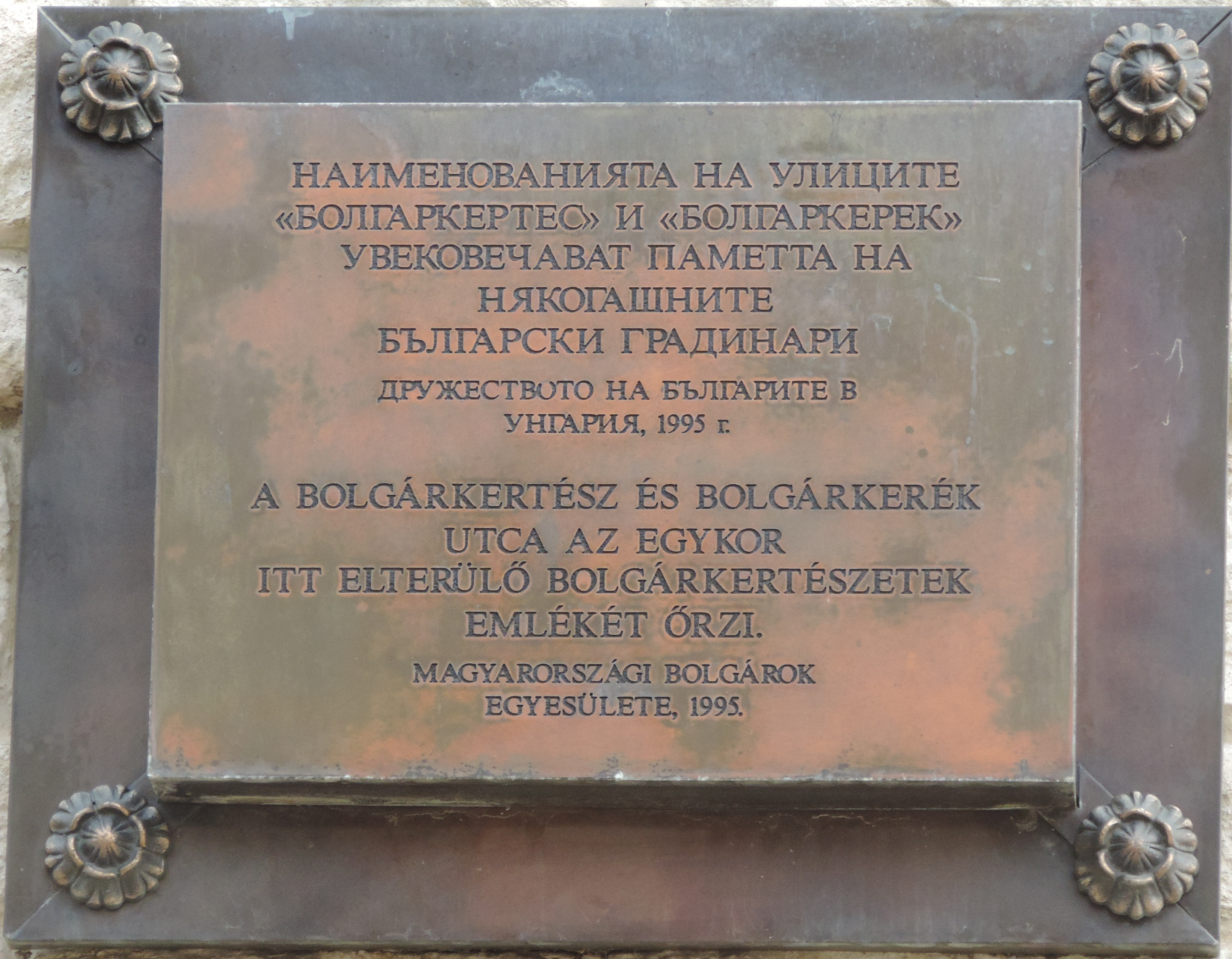 Commemorative plaque of Bulgarian Gerdeners (Budapest District XIV, Bolgárkertész utca No 25)